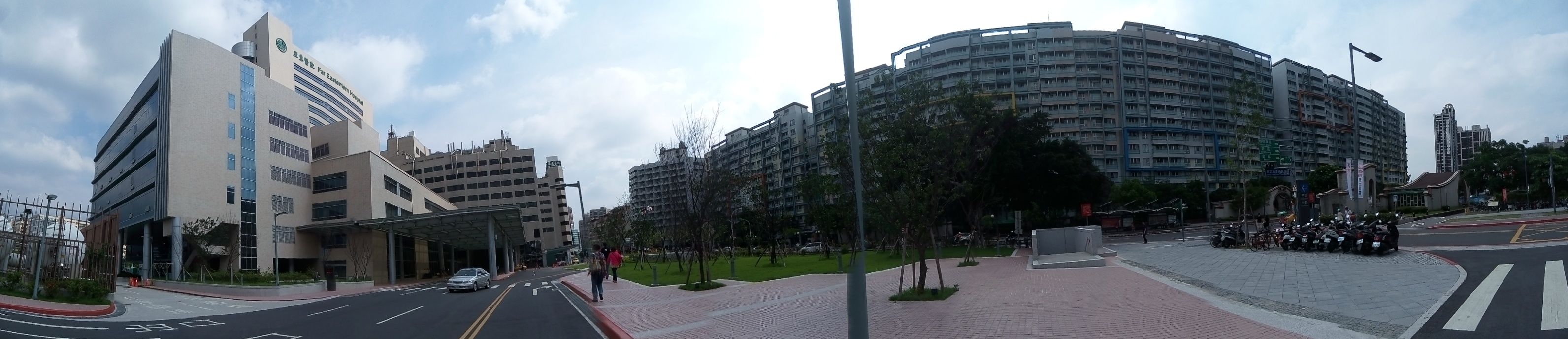 Far Eastern Memorial Hospital with YunYang floors